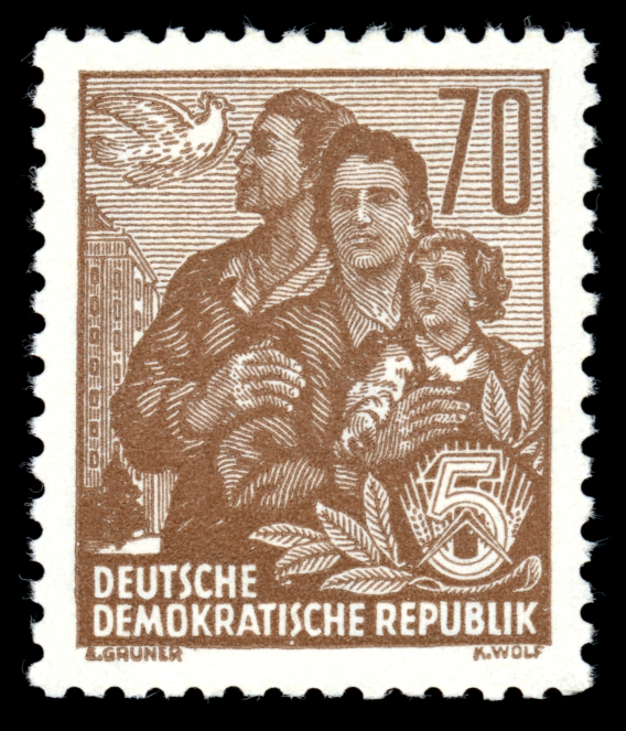 Ausgabepreis: Pfennig First Day of Issue / Erstausgabetag: Auflage: Entwurf: Druckverfahren: Michel-Katalog-Nr: Ländercode-MiNr: Licensing This file is most likely NOT in the public domain. It has been marked for review, and will be deleted in due course if the review does not find it to be in the public domain.This file was previously considered to be in the public domain as a German stamp; it is possible that it is in the public domain for other reasons, in which case a new rationale will be applied as part of the review process. See below for the previous rationale. Previous public domain rationale, no longer applicable This stamp is in the public domain in Germany because it was released by the postal administration of the German Democratic Republic or the Soviet occupation zone (Deutschen Post der DDR) whose legal successor is the Federal Republic of Germany. Thus it is an official work according to German copyright law (§ 5 Abs. 1 UrhG).